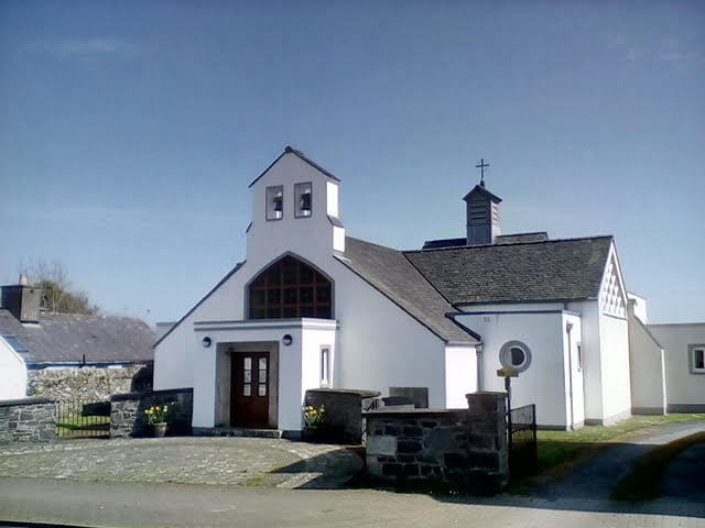 Harry Stuart Goodhart-Rendel architect